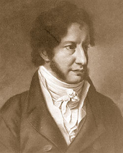 Georg Sverdrup (1770 - 1850) Painted by C. Hornemann, 1813